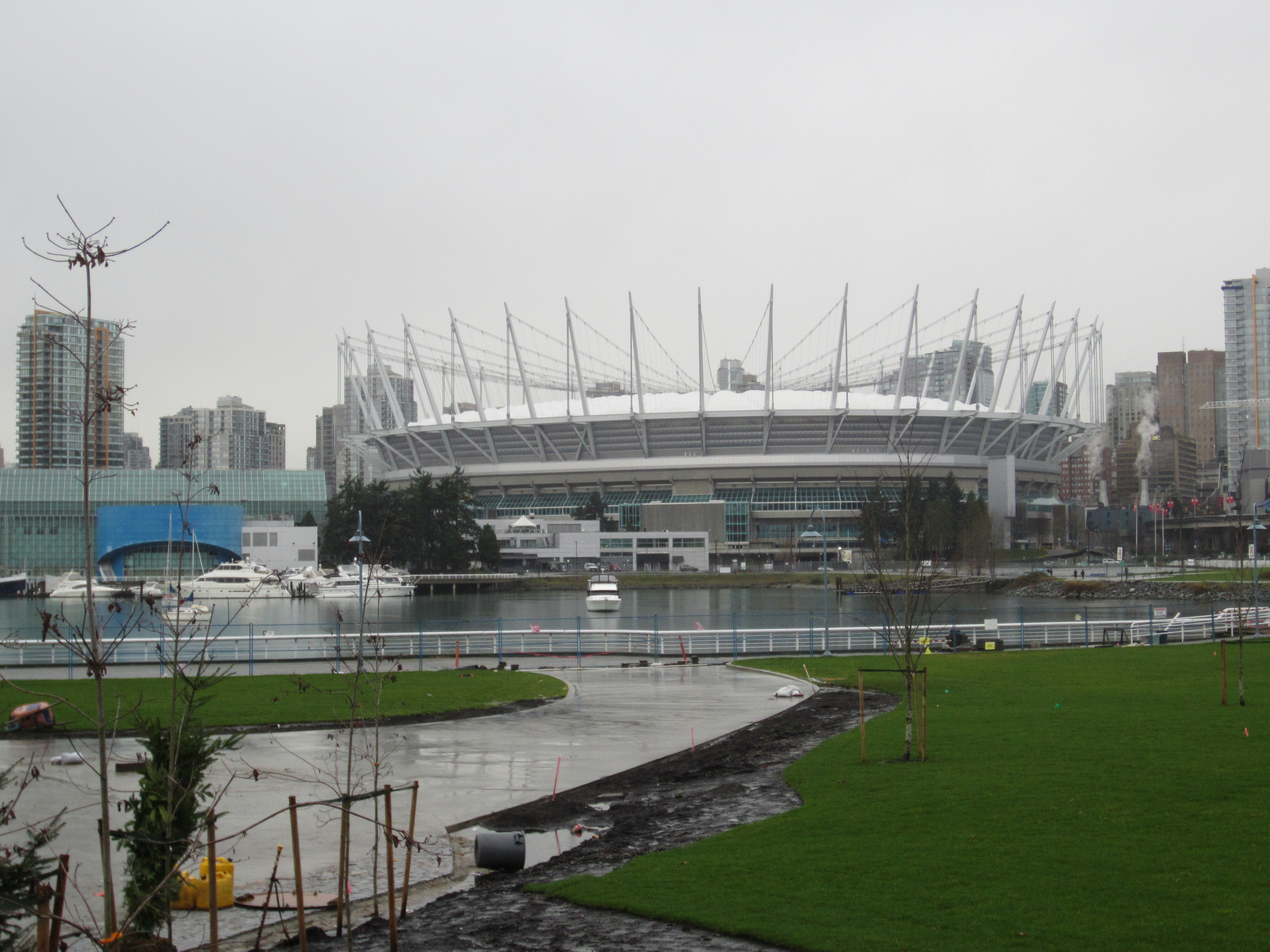 BC Place, Vancouver, British Columbia (2012)